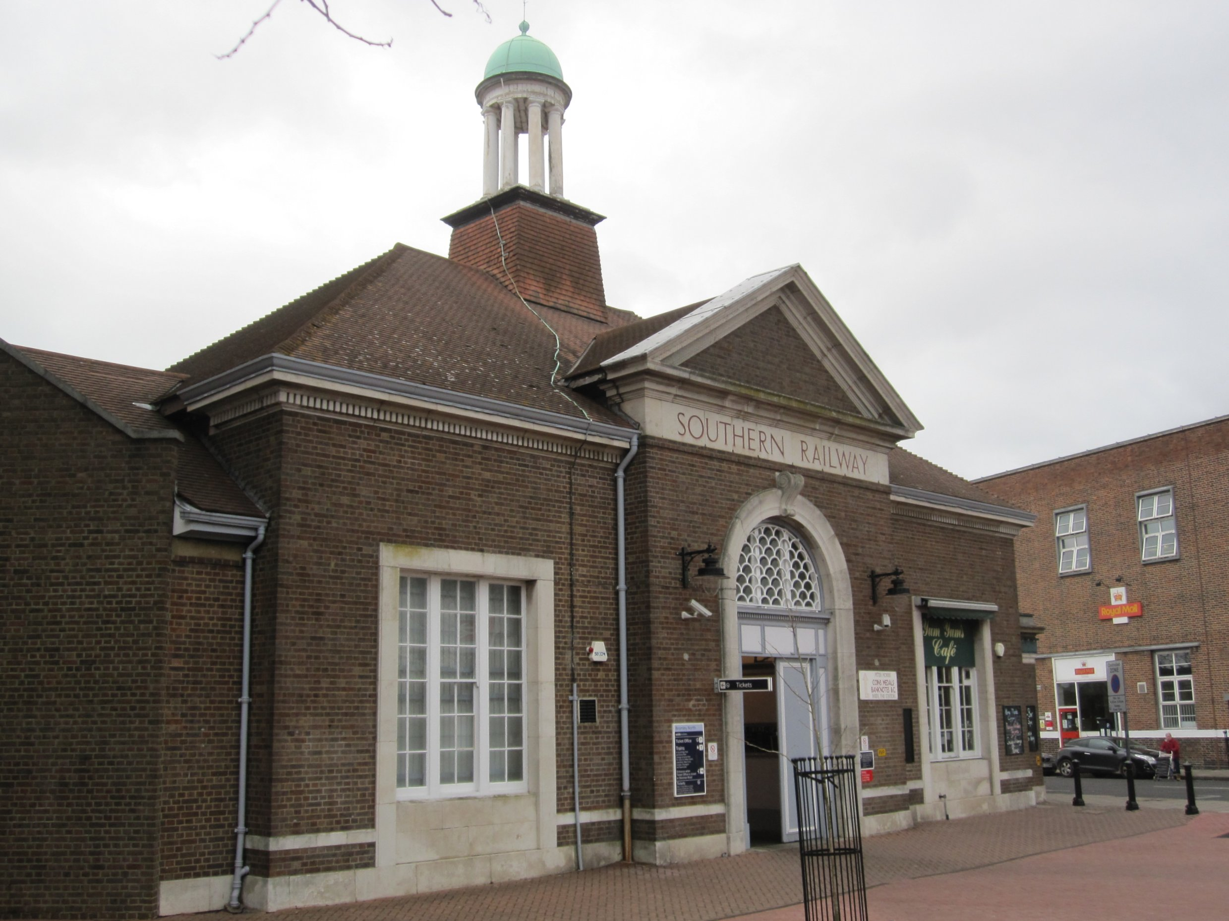 View of the station building at Bromley North. Opened in 1878 with changes taking place in the 1920s. In 2012, the station still boasted a staffed ticket office and space let out to a collectors shop and a café.